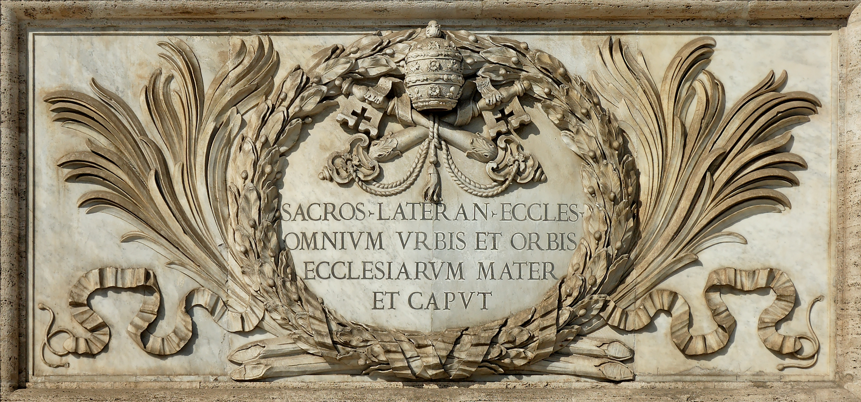 "Sacrosancta Lateranensis ecclesia omnium urbis et orbis ecclesiarum mater et caput" ("Most Holy Lateran Church, of all the churches in the city and the world, the mother and head.") Inscription on the façade of the Basilica of St. John Lateran (Rome).